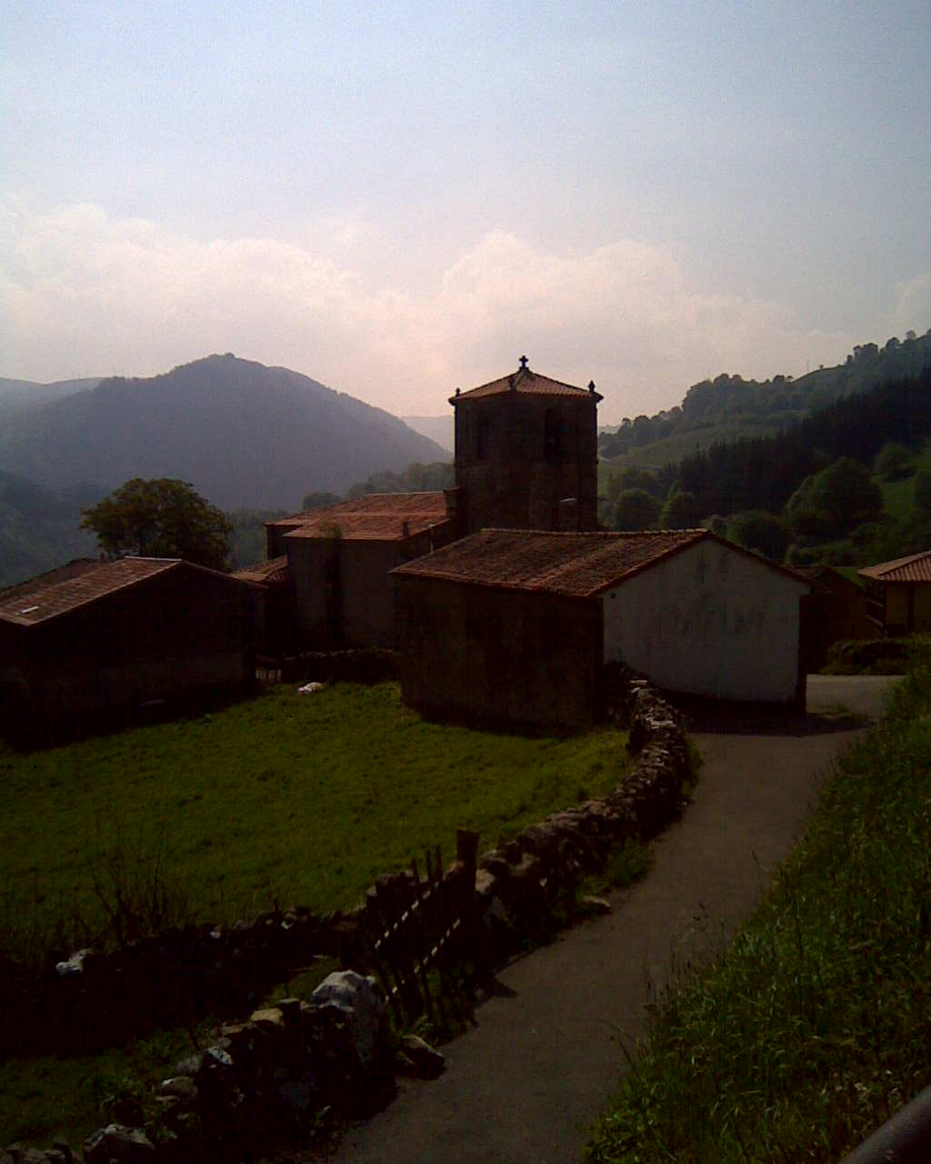 A view of San Miguel de Luena (Cantabria)